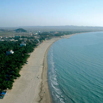 Durres